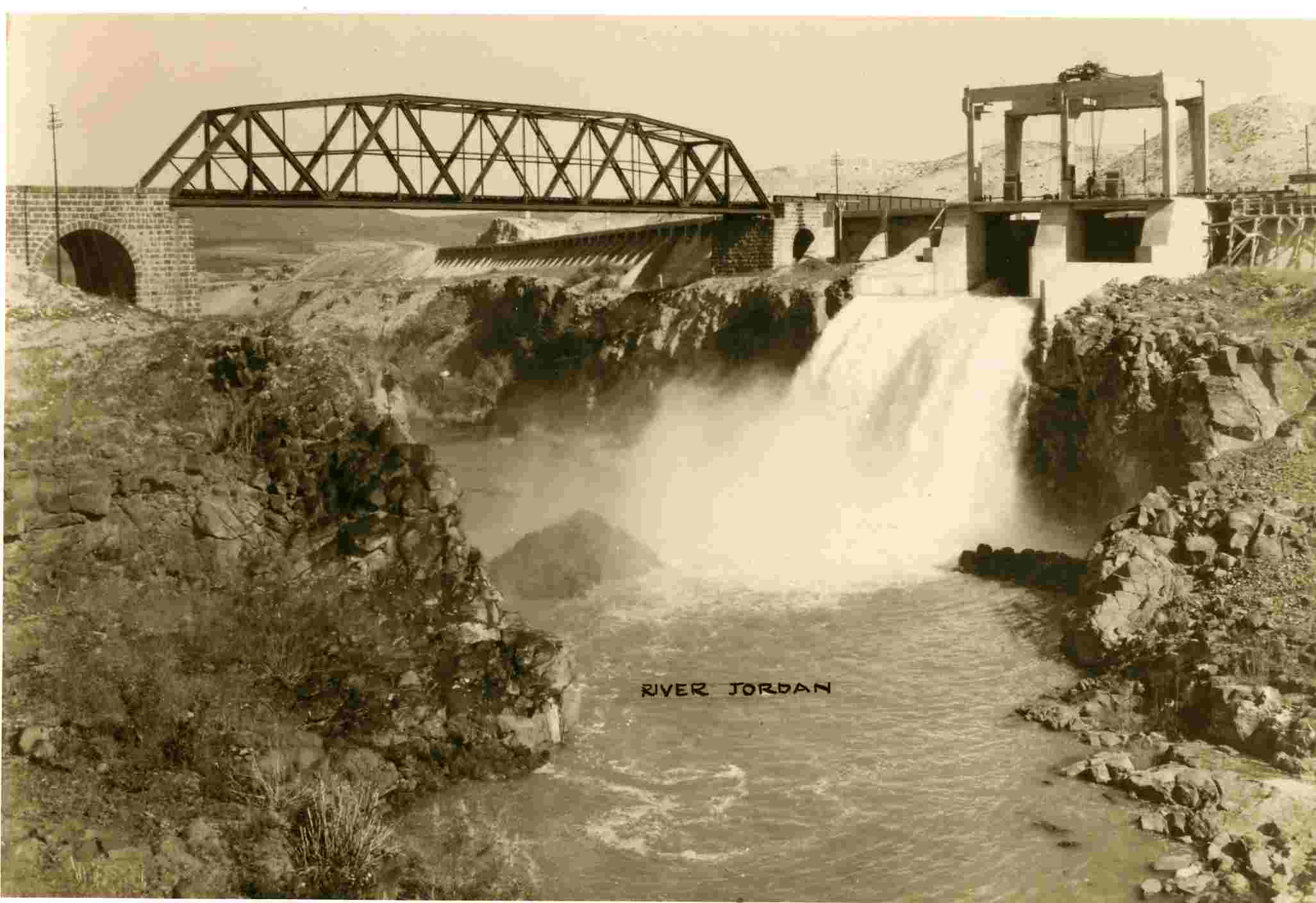 Yarmouk Lake Dam power plant near Naharyim, Industry in Israel. In the background the bridge of the Hejaz Railway line Dar'a—Haifa.